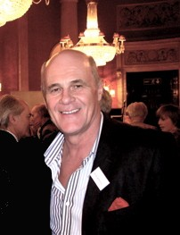 David Rintoul attending the Society of Theatre Research book awards ceremony on Tuesday 7th April 2009t. The location was the salon of the Theatre Royal Drury Lane in London